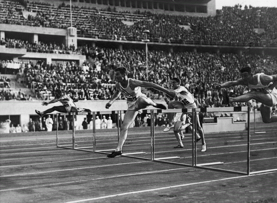 Final of 110 meters hurdles Olympic final